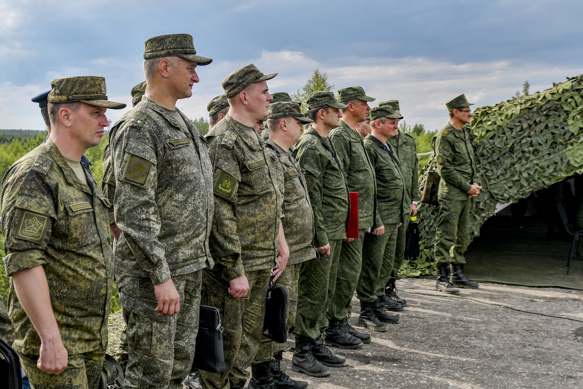 Union's Shield 2019.